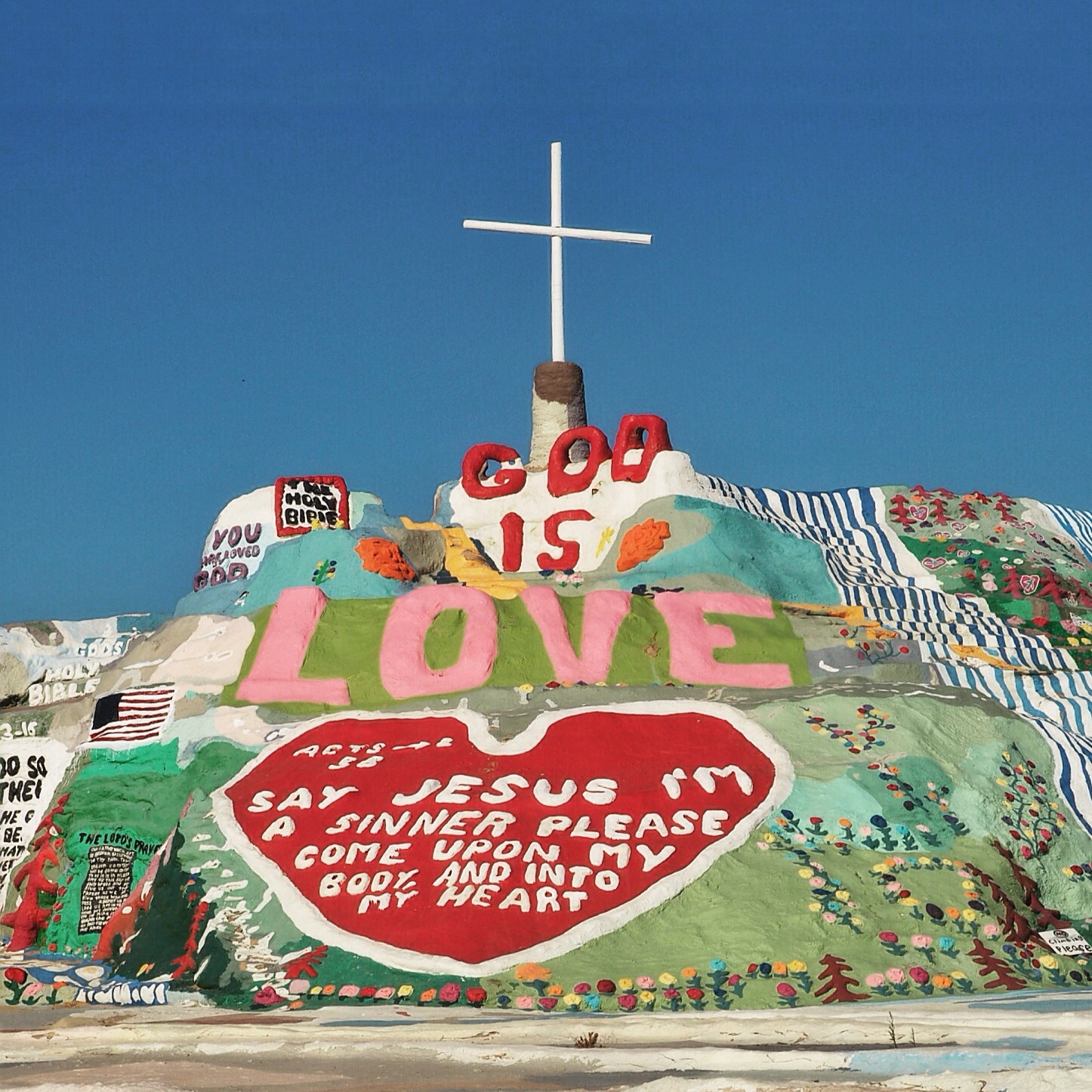 Taken on our summer 2015 road trip